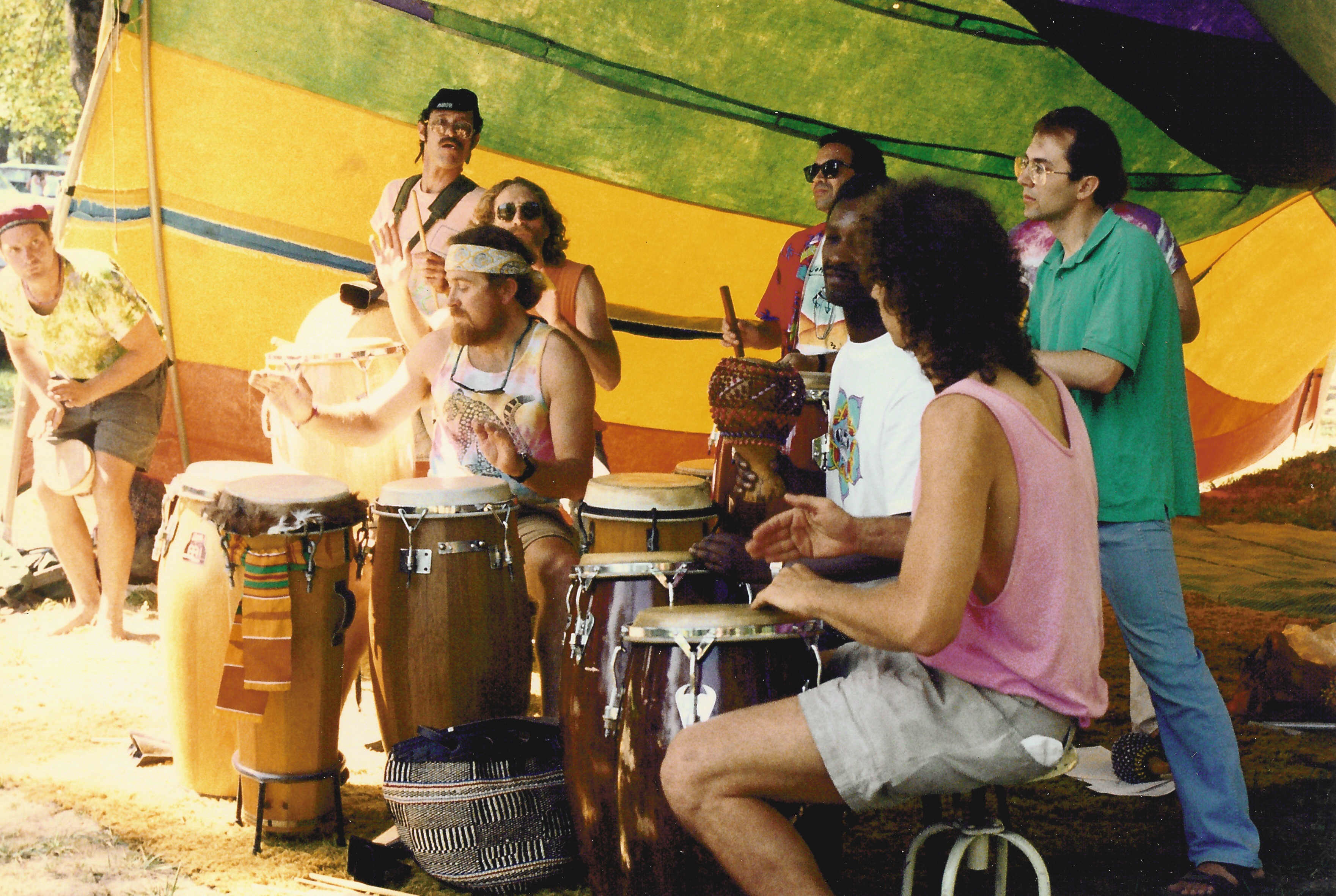 Drummers, performing in the entrance of the Seattle Portable Outdoor Theater (S.P.O.T.) at Snoqualmie Moondance festival.